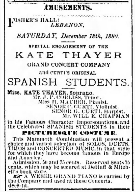 Advertisement for Carlo Curti's Original Spanish Students, from an 1880 newspaper. Names in add: Kate Thayer (soprano singer), J. P Corliss (tenor singer), H. Maurer (pianist), Carlo Curtis (violinist) G. Curtis (harpist), Will E. Chapman (character impersonations)